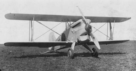 The Kawasaki KDA-5/ Kawasaki Army Type 92 Fighter